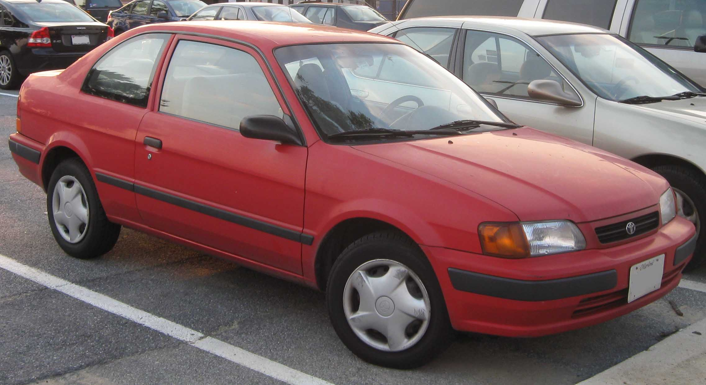 1995-1997 Toyota Tercel photographed in College Park, Maryland, USA.